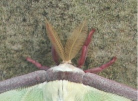 luna moth antennae Photo by Pollinator, Fairfield Glade, TN July 2003 Image copyleft: Image taken by me, released under GFDL Pollinator 03:32, Nov 9, 2004 (UTC)